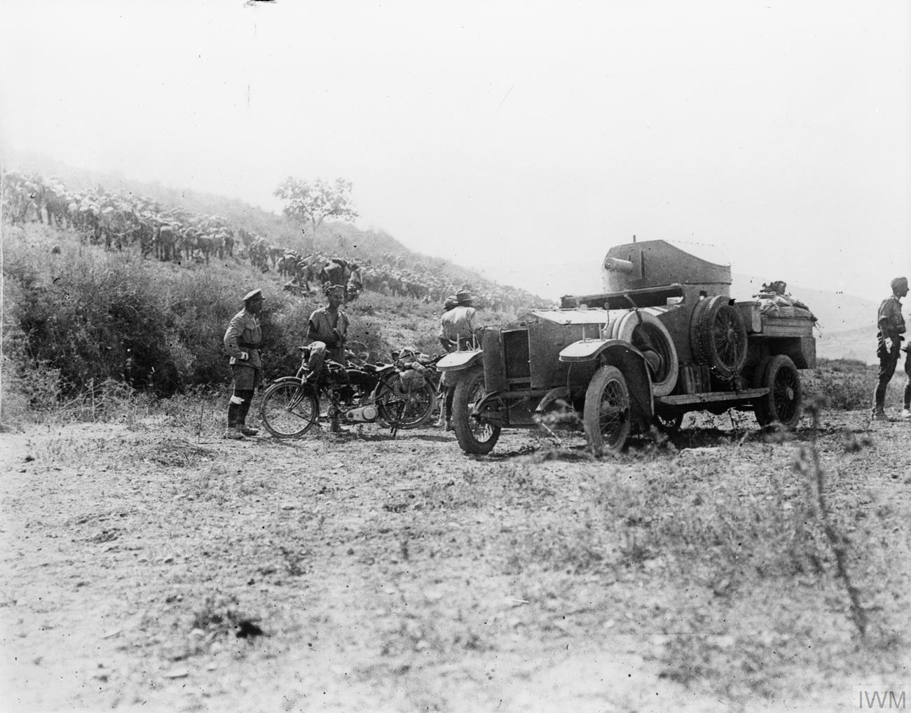 Photograph of Light Armoured Car Patrol in Samarian hills.